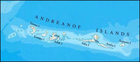 Map of the Andreanof Islands group of the west-central Aleutian Islands, Alaska.